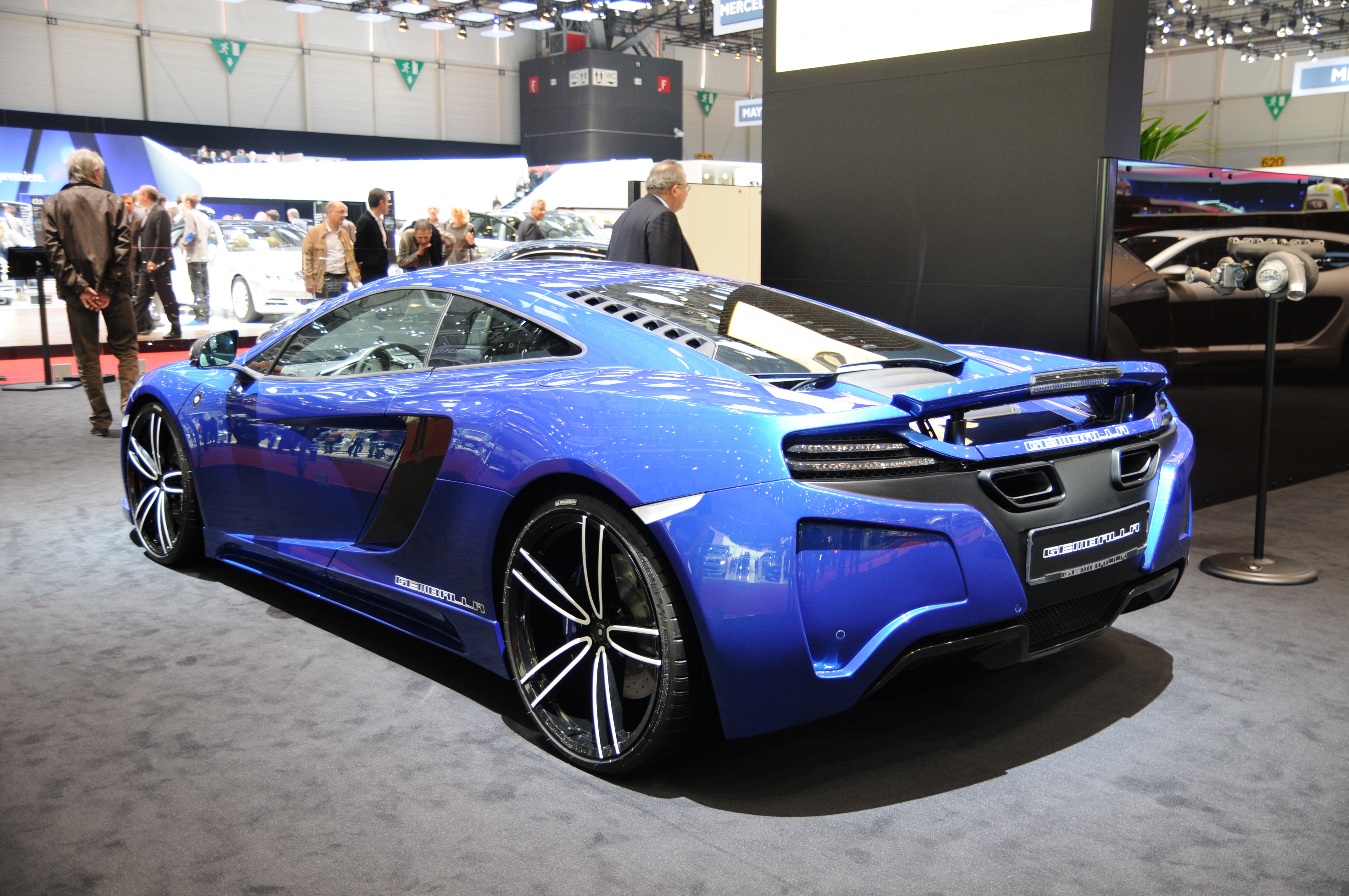 Geneva Motor Show 2012 (photos taken on the second press day)